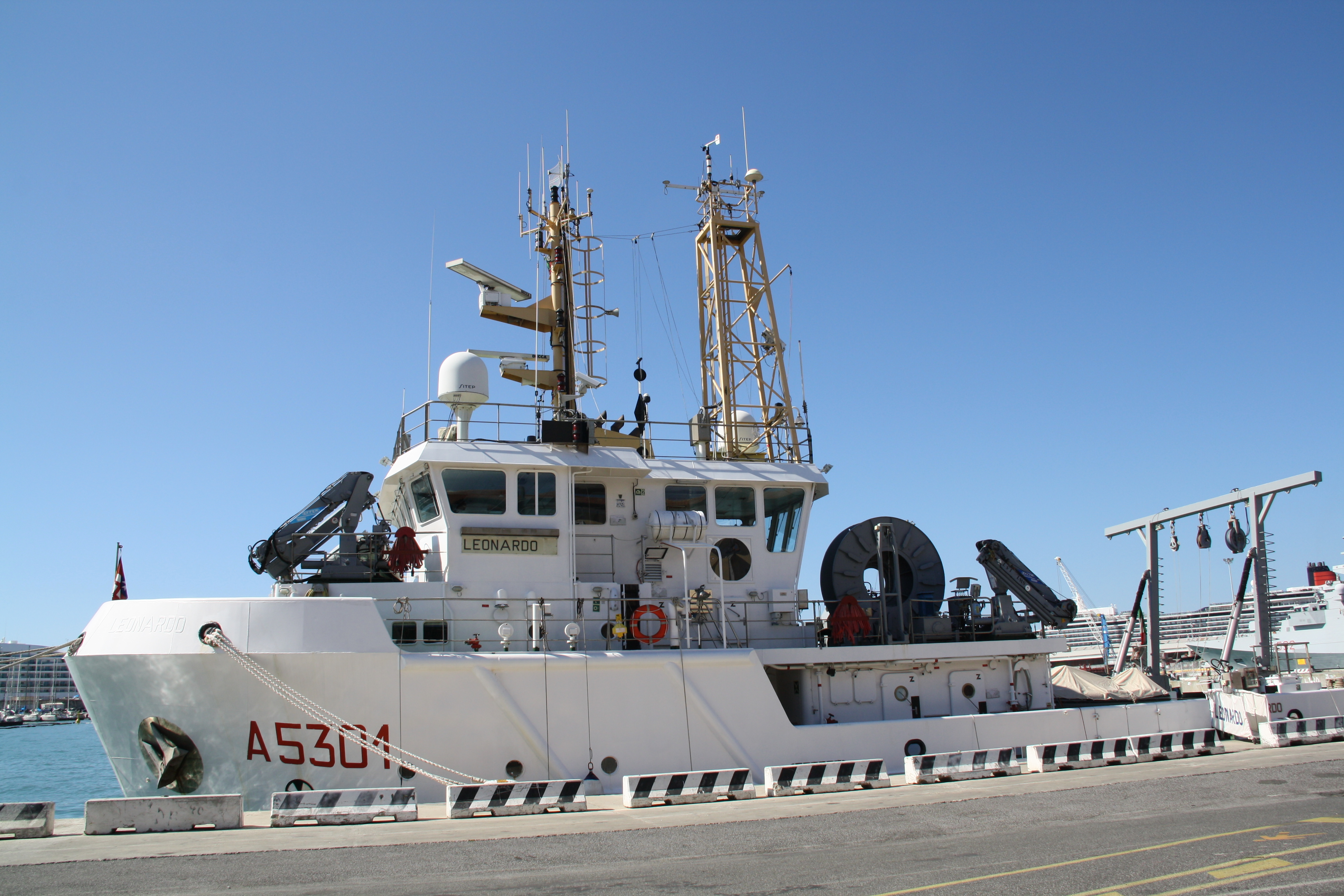 Italy Navy: Marina Militare Pennant number: A 5301 Type: Coastal Research Vessel Launch date: January 3, 2002 Shipyard: McTay Marine, Bromborough, England Displacement: 433 t Length overall: 29 m Beam: 9 m Draft: 2.5 m Main engine: 3 diesel alternator engines Kummings Type 1170 KW Speed: 10 knots Crew: 9 The ship Leonardo is a Coastal Research vessel active in the NATO through the Centre for Maritime Research and Experimentation regarding acoustic and environmental fields. The unit was delivered to NATO Underwater Research Centre in December 2002 and since October 2013 is operationally reporting to CINCNAV. In 2010 she took part in the research on the communications between sea-lions in the Ligurian Sea; in 2011 and 2012 conducted the measuring of the sea floor deformation and survey of hydrocarbons on seabed; in 2013 was involved in the project regarding underwater wireless communications network in order to replace the telephone cables laid on the ocean sea floor.